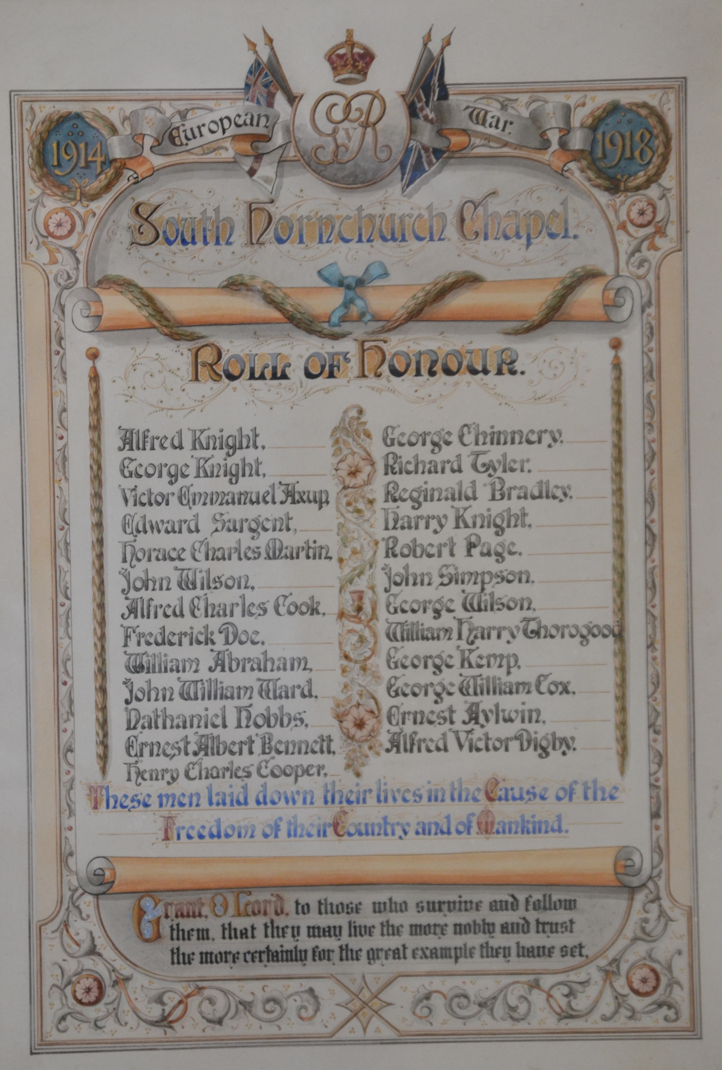 Photograph of Memorial Plaque died in 19-14-1918 War.